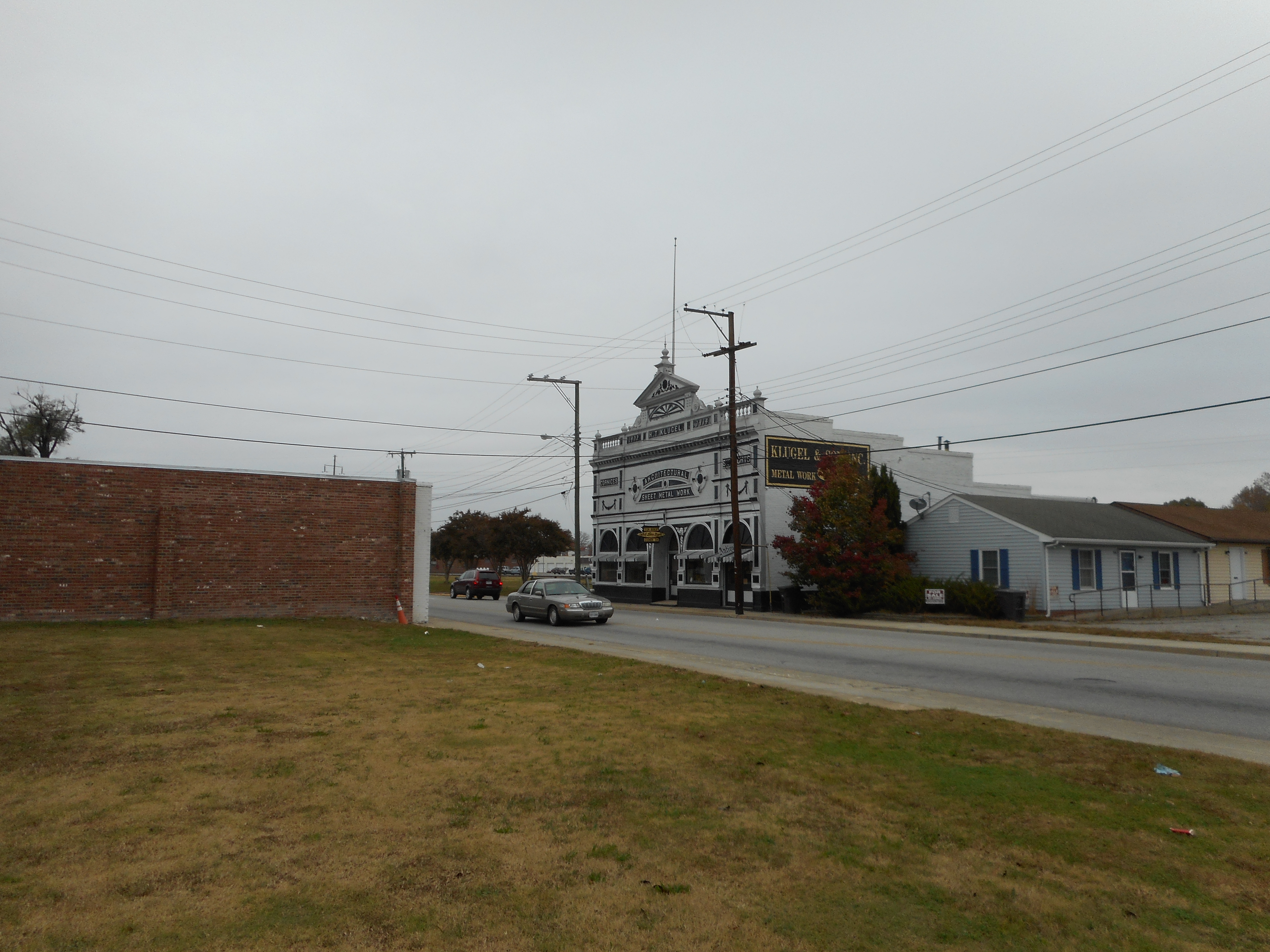 The H. T. Klugel Architectural Sheet Metal Work Building, as seen from a vacant lot on the southwest corner of U.S. Business Route 58 (East Atlantic Avenue) and Halifax Street, in Emporia, Virginia, now an antique store. Also part of the Belfield-Emporia Historic District.